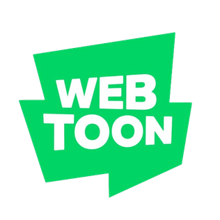 Logo of Naver Corporation's Naver/Line Webtoon service.